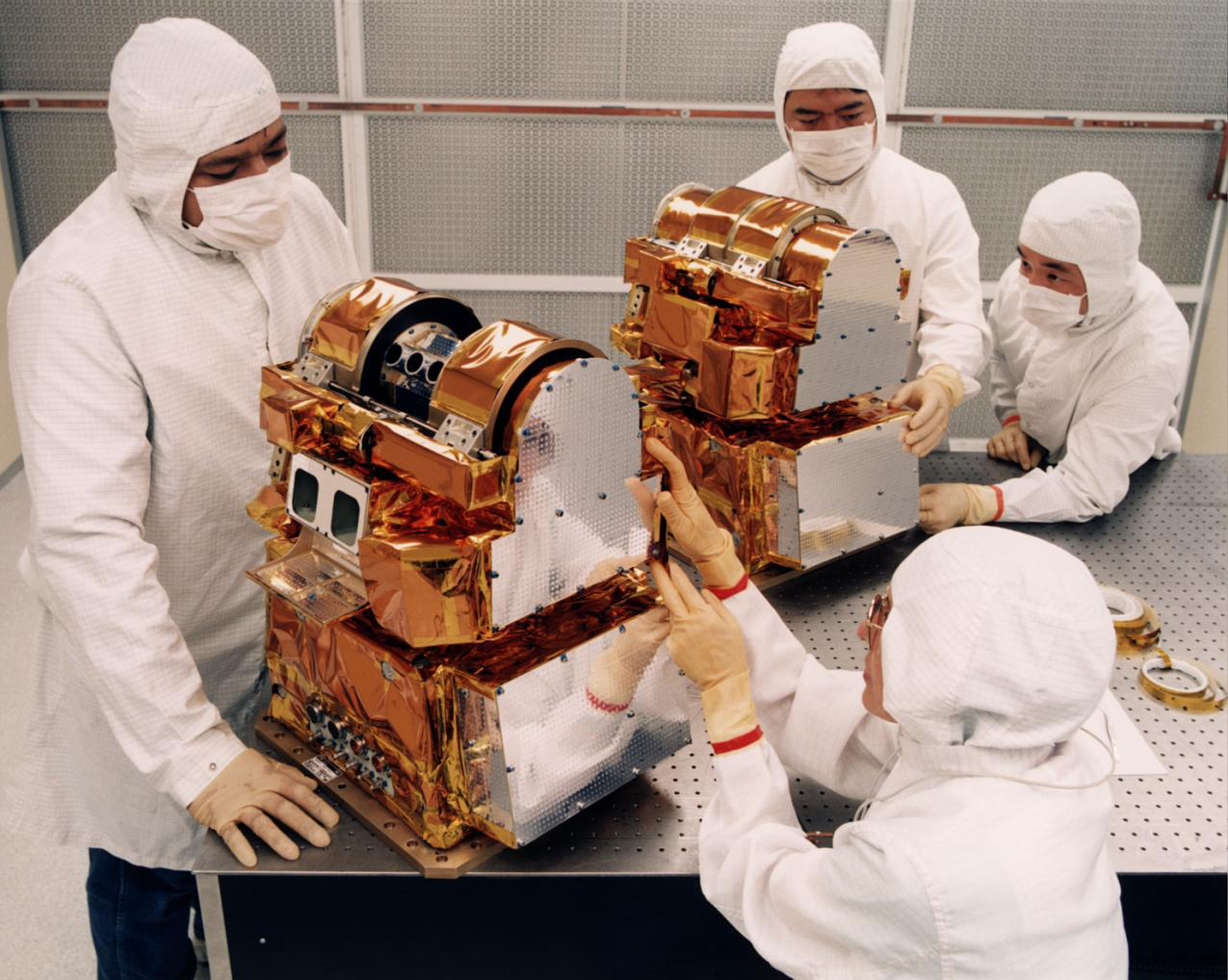 Two of NASA's CERES instruments appear in the photo. The precision radiometers will measure reflected solar and emitted thermal radiation from the Earth's surface. TRW engineers and technician at TRW in Redondo Beach, California.